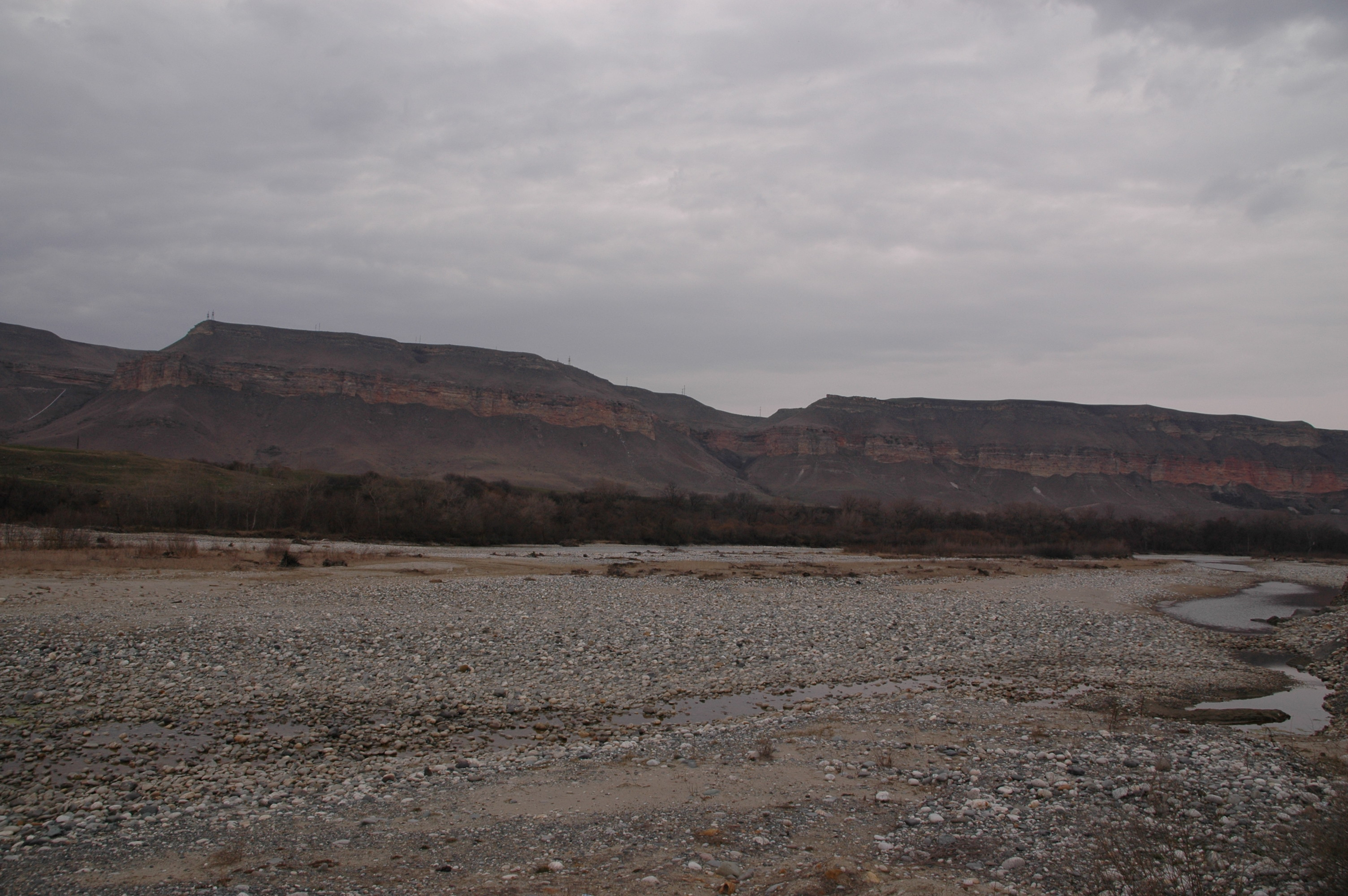 Widok z Suchumskiej Drogi Wojennej, Karaczajo-Czerkiesja